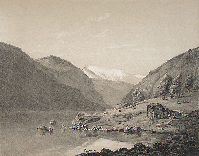 Pictures from the work "Norge fremstillet i Tegninger" from 1848 by Christian Tønsberg.